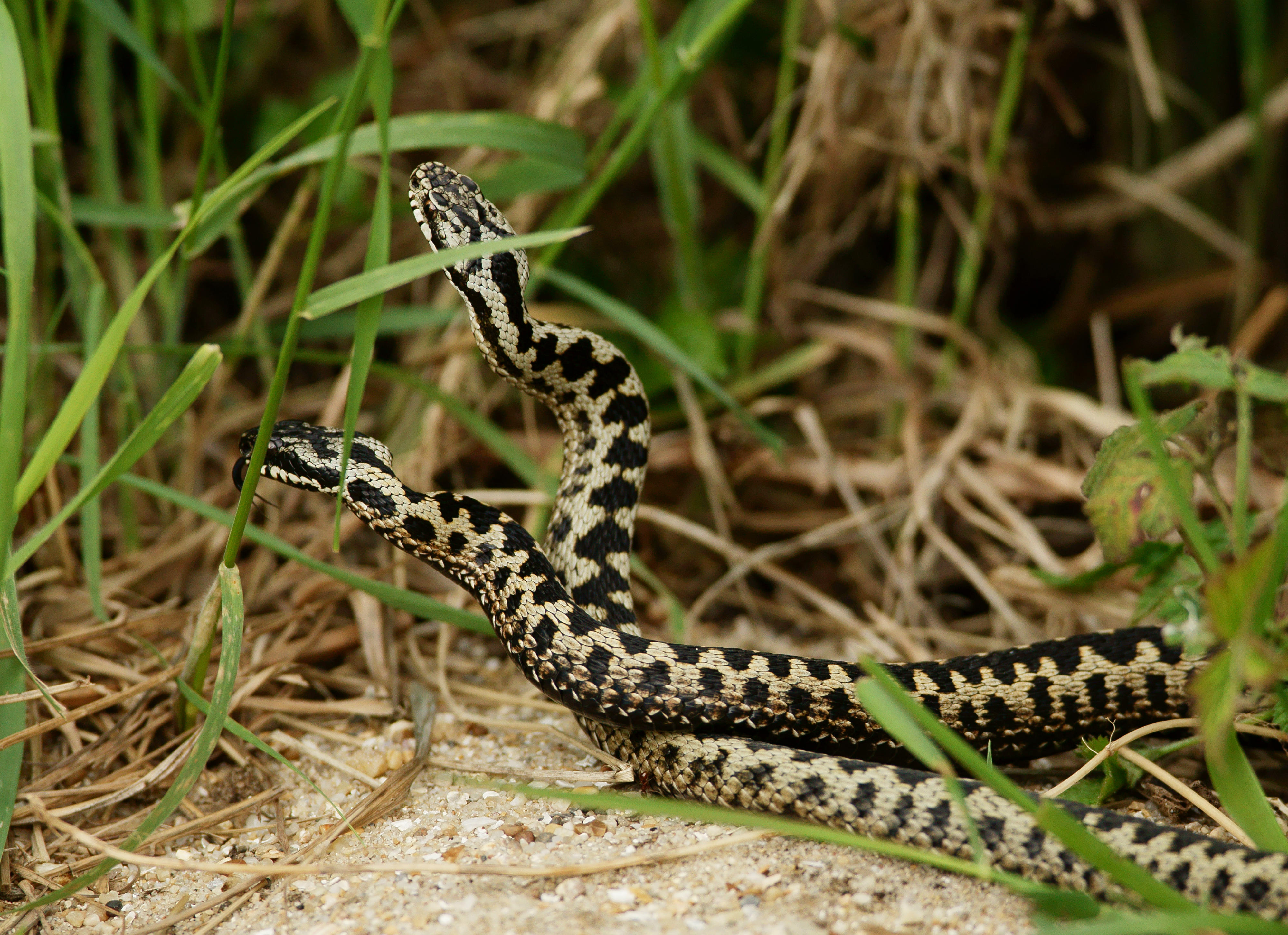 Seen at the British Wildlife Centre, Newchapel, Surrey. As the male adders wrestle, a red ant hitches a ride!